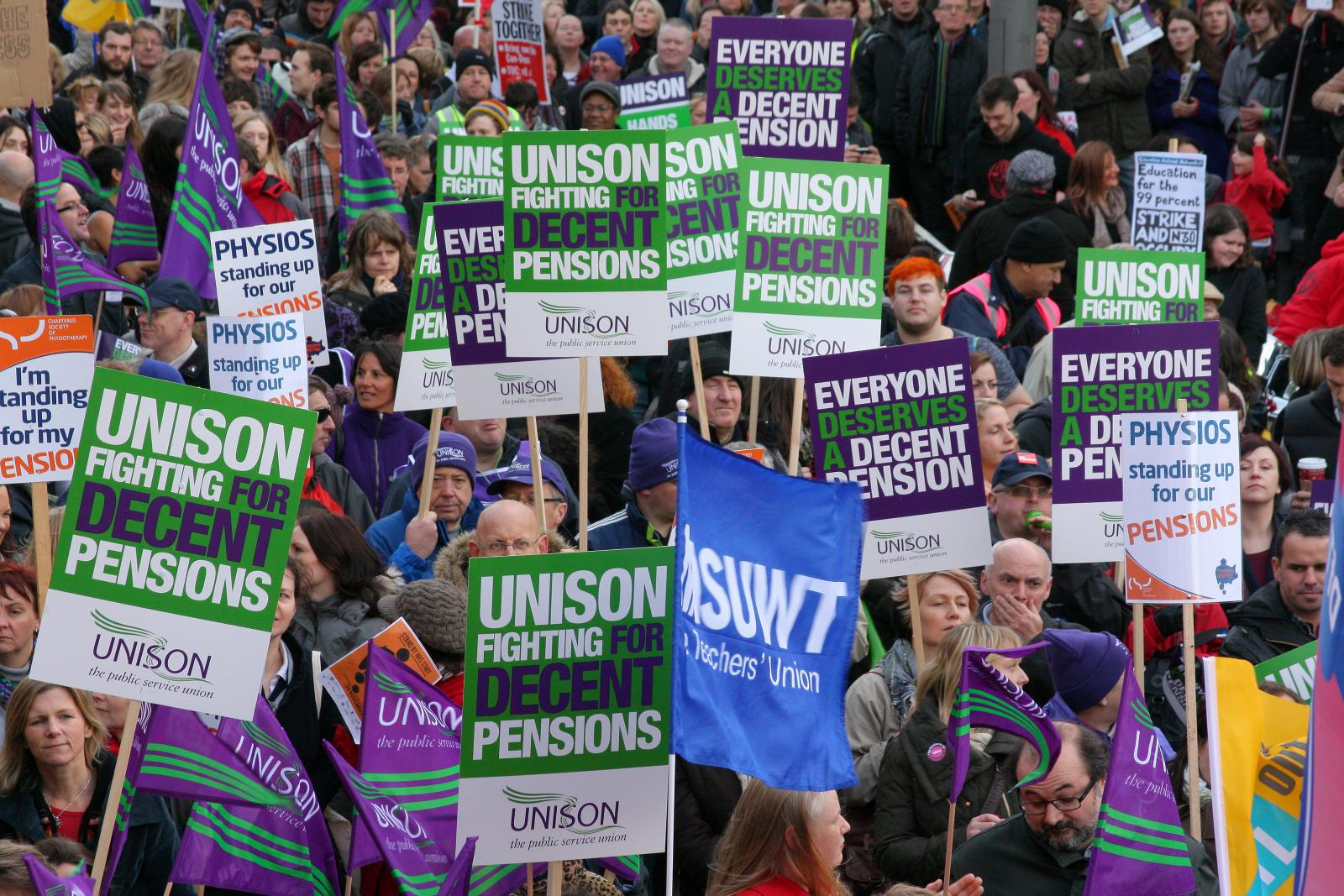 Public sector workers in Leeds, West Yorkshire striking over pension changes by the government in November 2011.